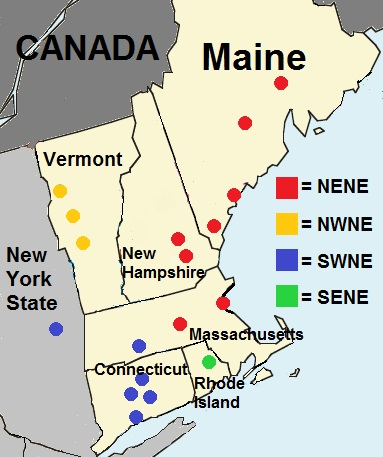 Map of the major English dialect regions of New England (derived from the Atlas of North American English [2006]; p. 148; pp. 225-232).